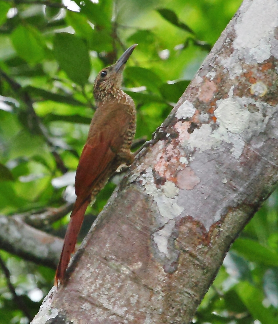 Black-banded Woodcreeper; Manaus, Amazonas, Brazil